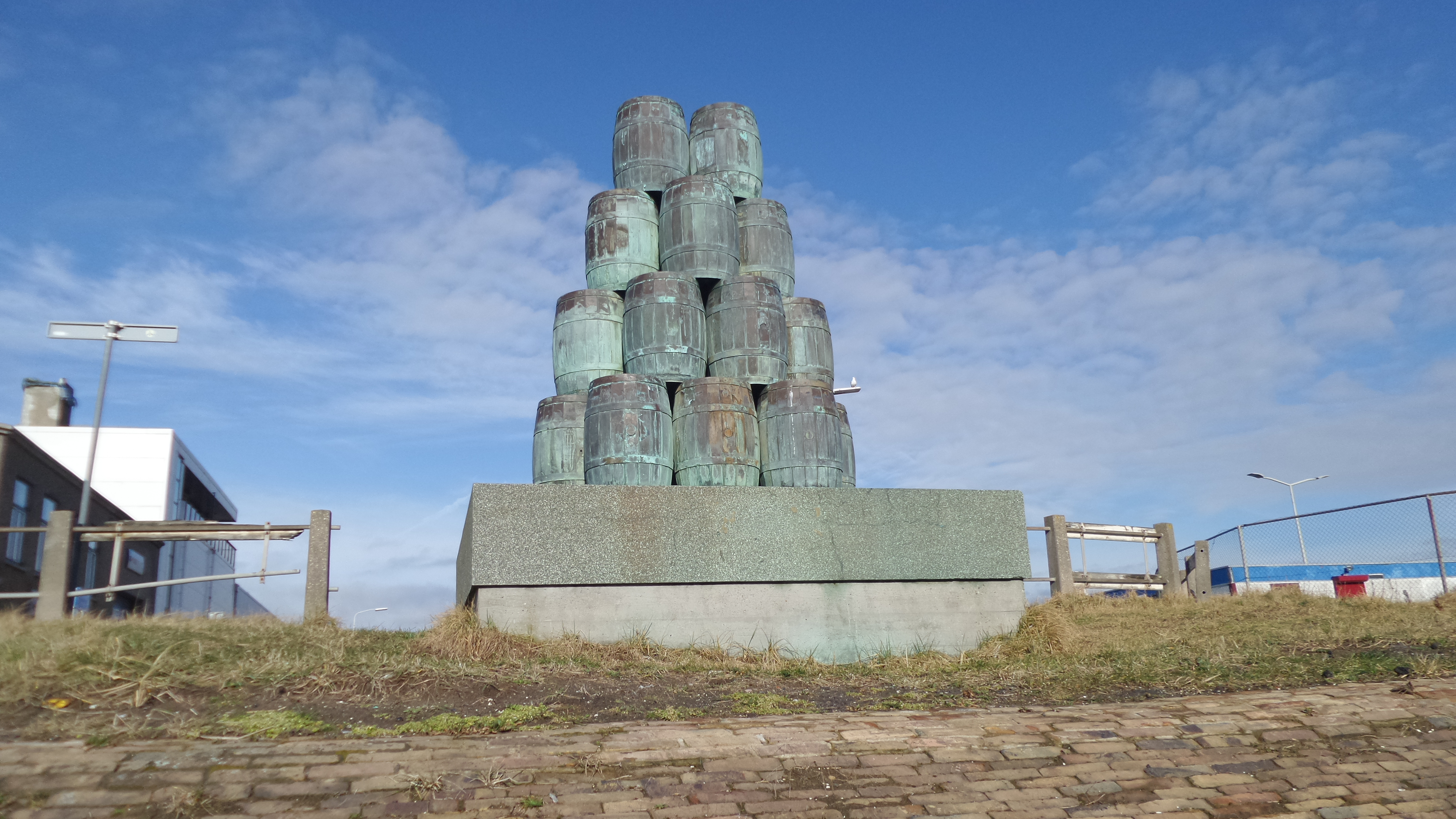 Harbour Monument